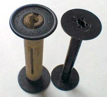 Original 120 film spool in comparison to a 620 film spool. Picture taken by myself. —The preceding unsigned comment was added by Caradea (talk • contribs). Minor white-point correction by Fourohfour.